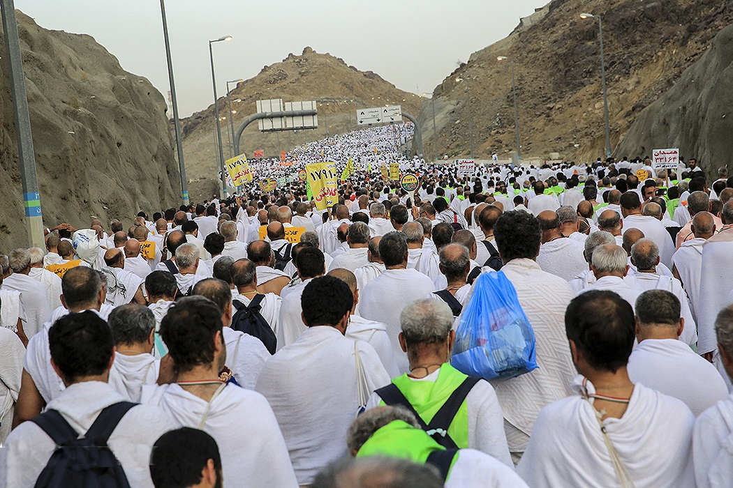 Hajj pilgrims -August 2018